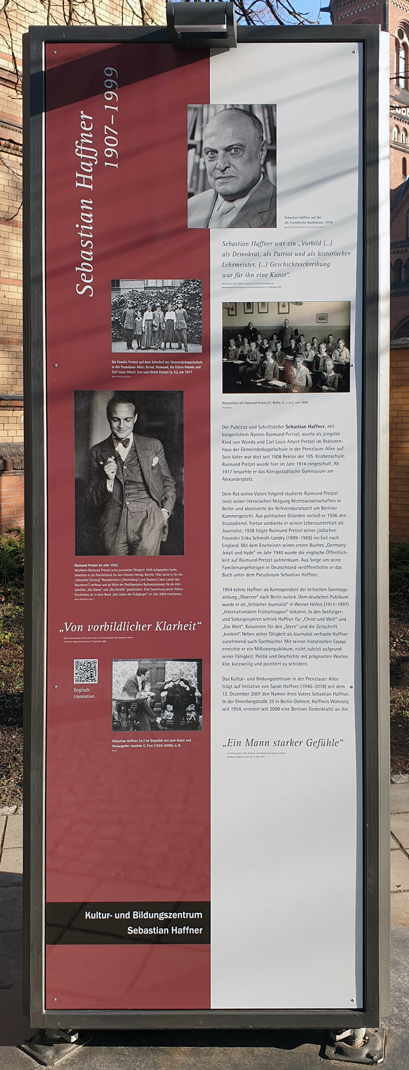 Memorial plaque, Sebastian Haffner, Prenzlauer Allee 227, Berlin-Prenzlauer Berg, Deutschland